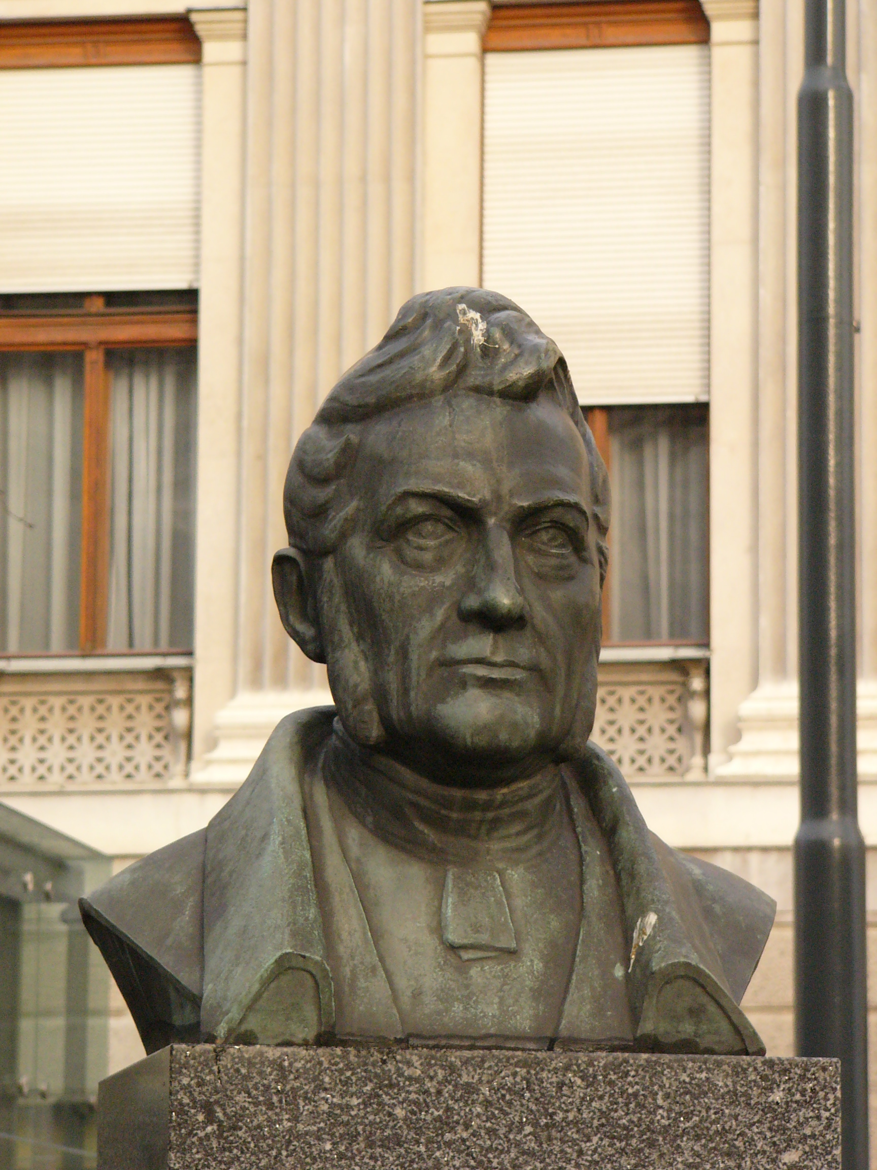 Detail of bust of Franz Xaver Gabelsberger in Wien near Parlament building (Austria).